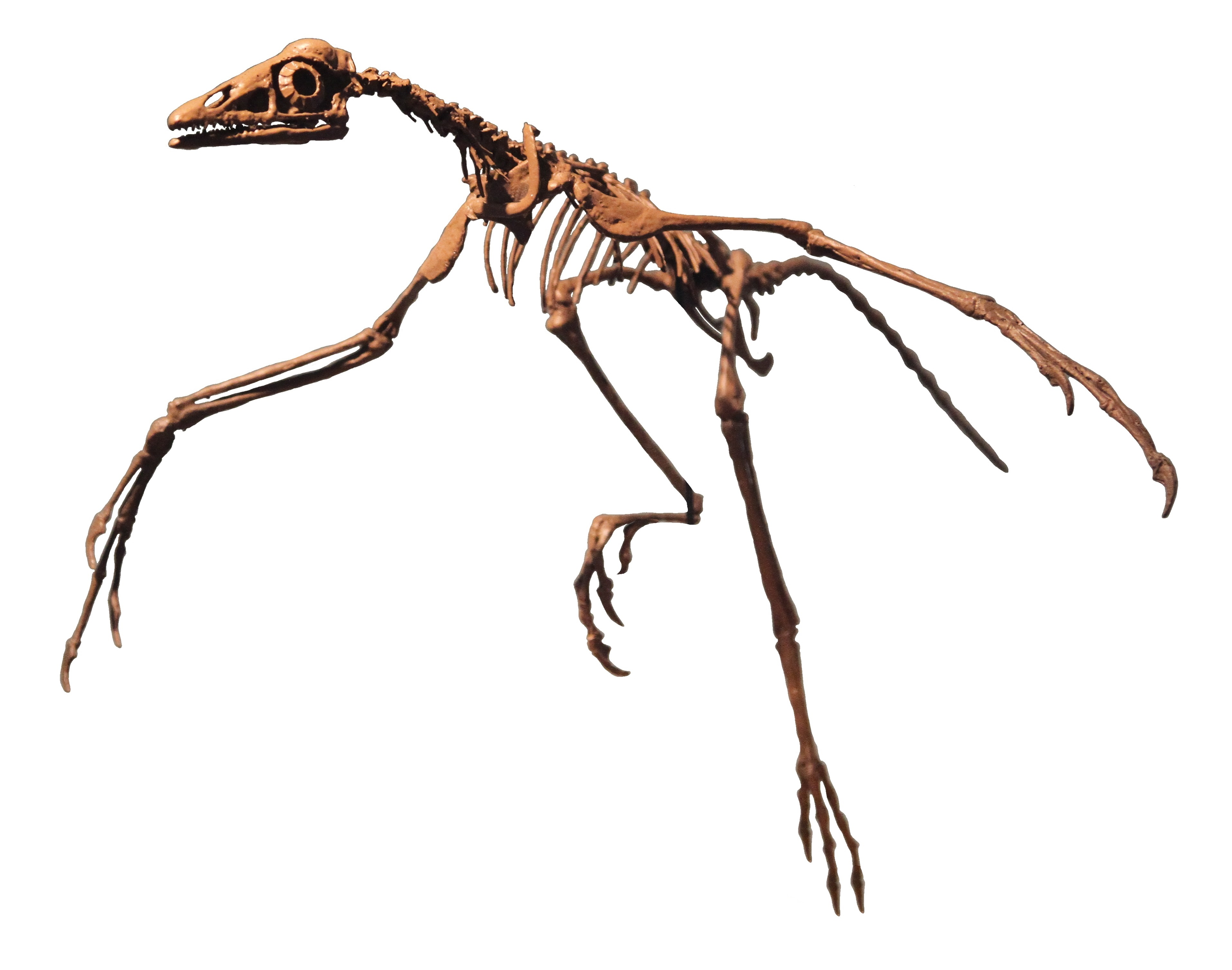 Academy of Natural Sciences of Drexel University 1900 Benjamin Franklin Parkway Philadelphia, PA 19103 March 18, 2013